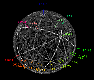 Snapshot of an interactive Kikuchi map for the Aluminum Oxide sapphire/corundum structure. This is a hexagonal structure with relatively little symmetry, compared e.g. to a hexagonal close-packed lattice for example. As a result finding ones way around in orientation space without a Kikuchi map is potentially more difficult.